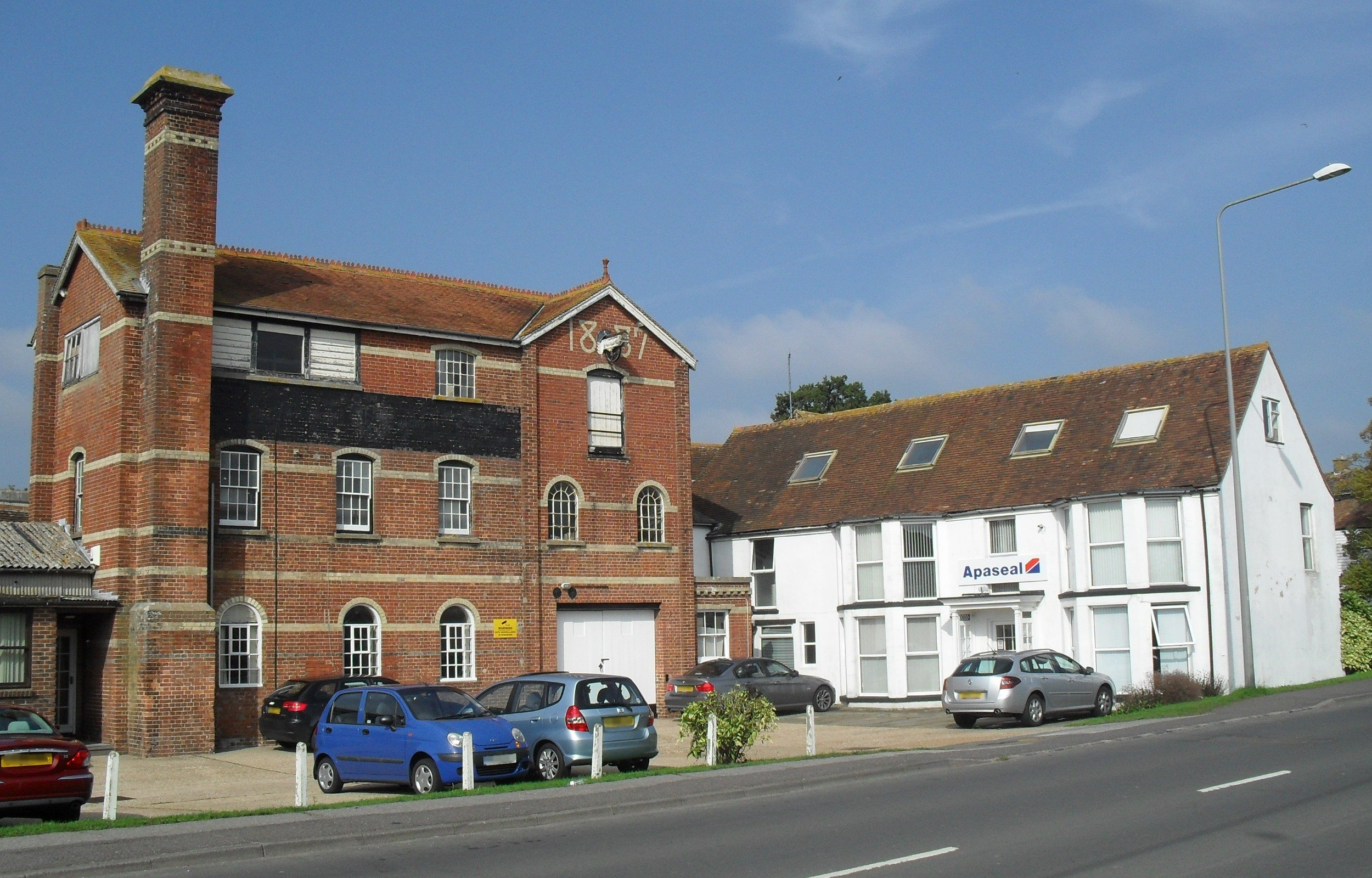 Former Lynn's Brewery, Battle Road, Hailsham, East Sussex, England. Now used by a company called Apaseal. Roman Catholics in Hailsham rented part of the stable block at the rear of this building in the first quarter of the 20th century and used it as a chapel; it was the first Roman Catholic place of worship in the town.